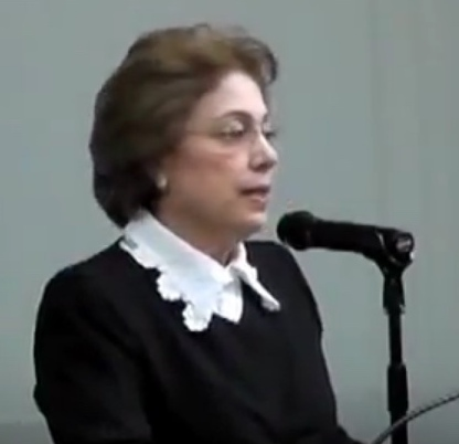 Azizah Y. al-Hibri, professor emeritus at the T. C. Williams School of Law, University of Richmond, former professor of philosophy, founding editor of Hypatia: A Journal of Feminist Philosophy, speaking to the 2012–2013 Mellon Sawyer Seminar Series, "Democratic Citizenship and the Recognition of Cultural Differences," co-sponsored by the Center for Global Ethics and Politics, in the graduate center, CUNY.